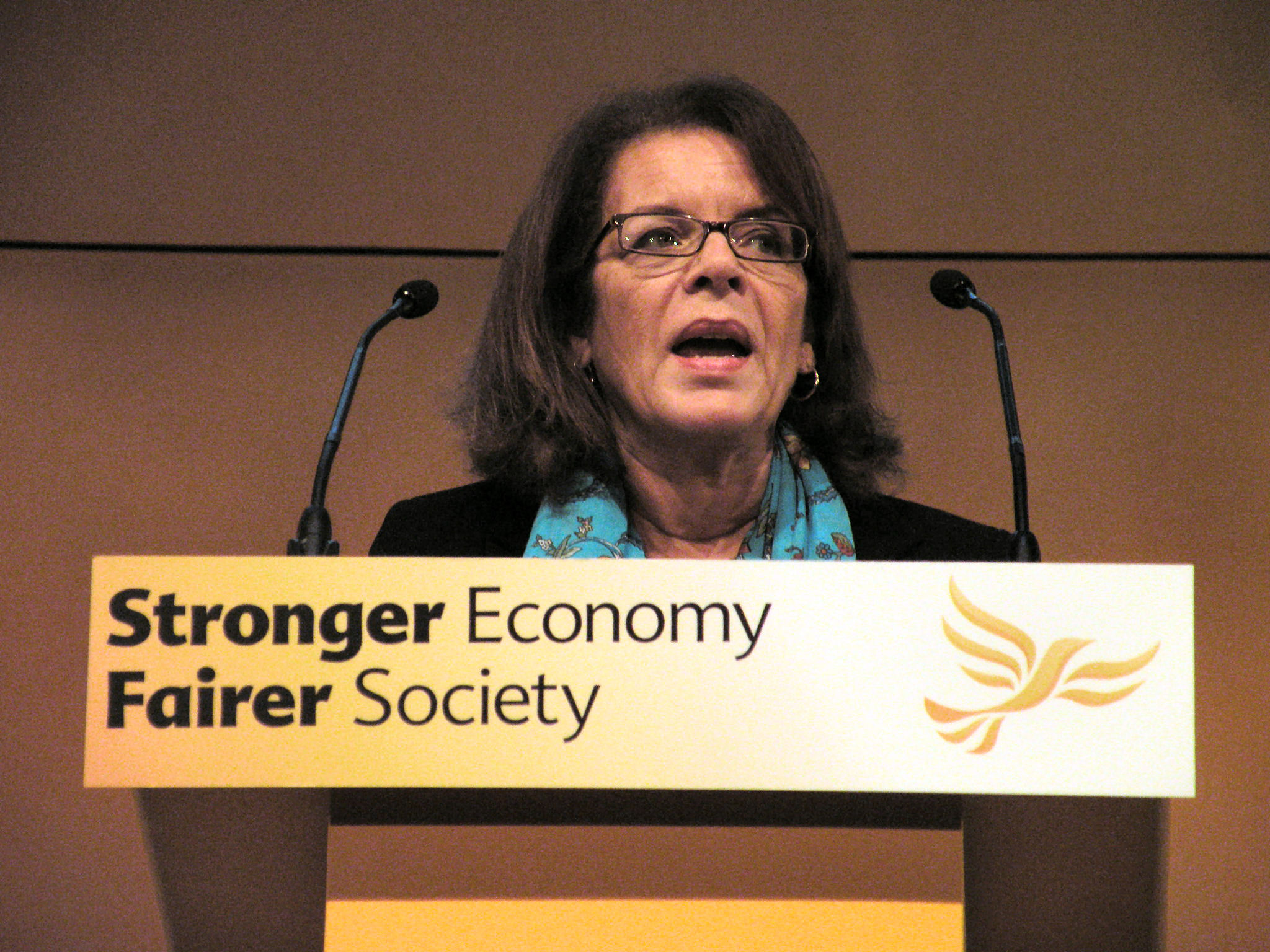 Meral Hussein-Ece, Baroness Hussein-Ece addressing a Liberal Democrat conference in the Clyde Auditorium, Glasgow.